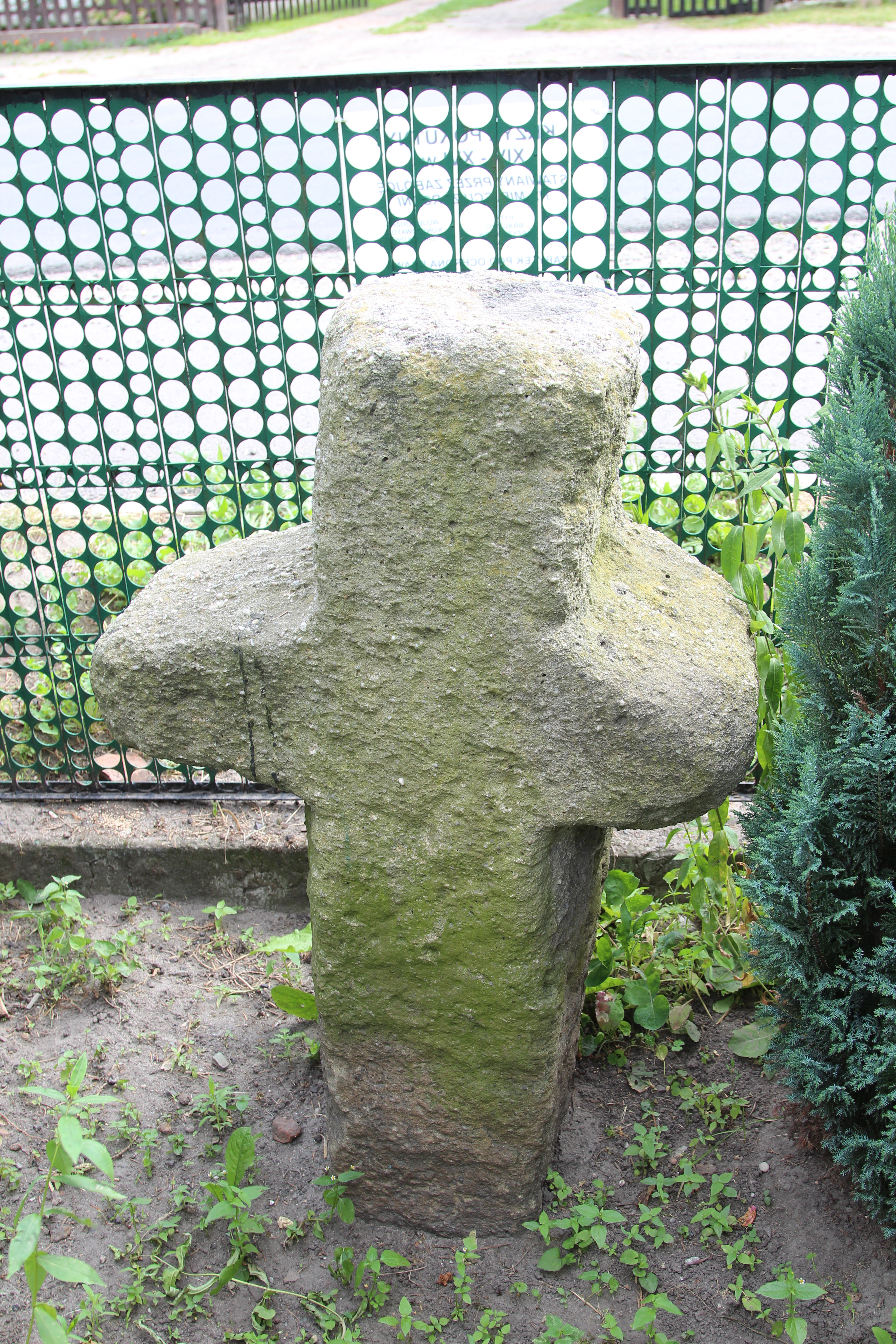 Stone cross in Barkowo